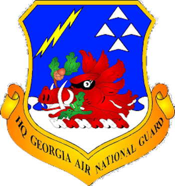 Georgia Air National Guard - Emblem.